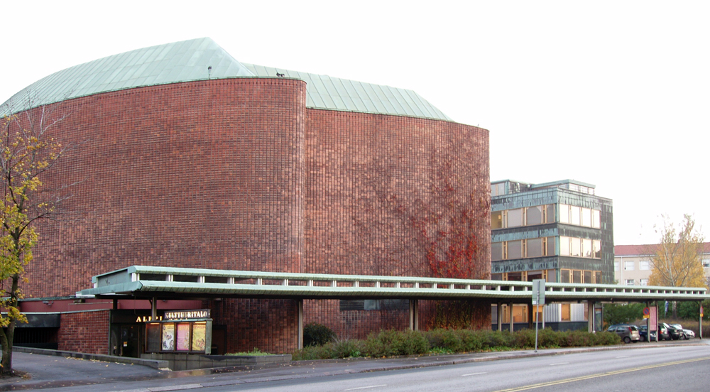 The House of Culture, Helsinki, Finland, designed by Alvar Aalto (1952–58)